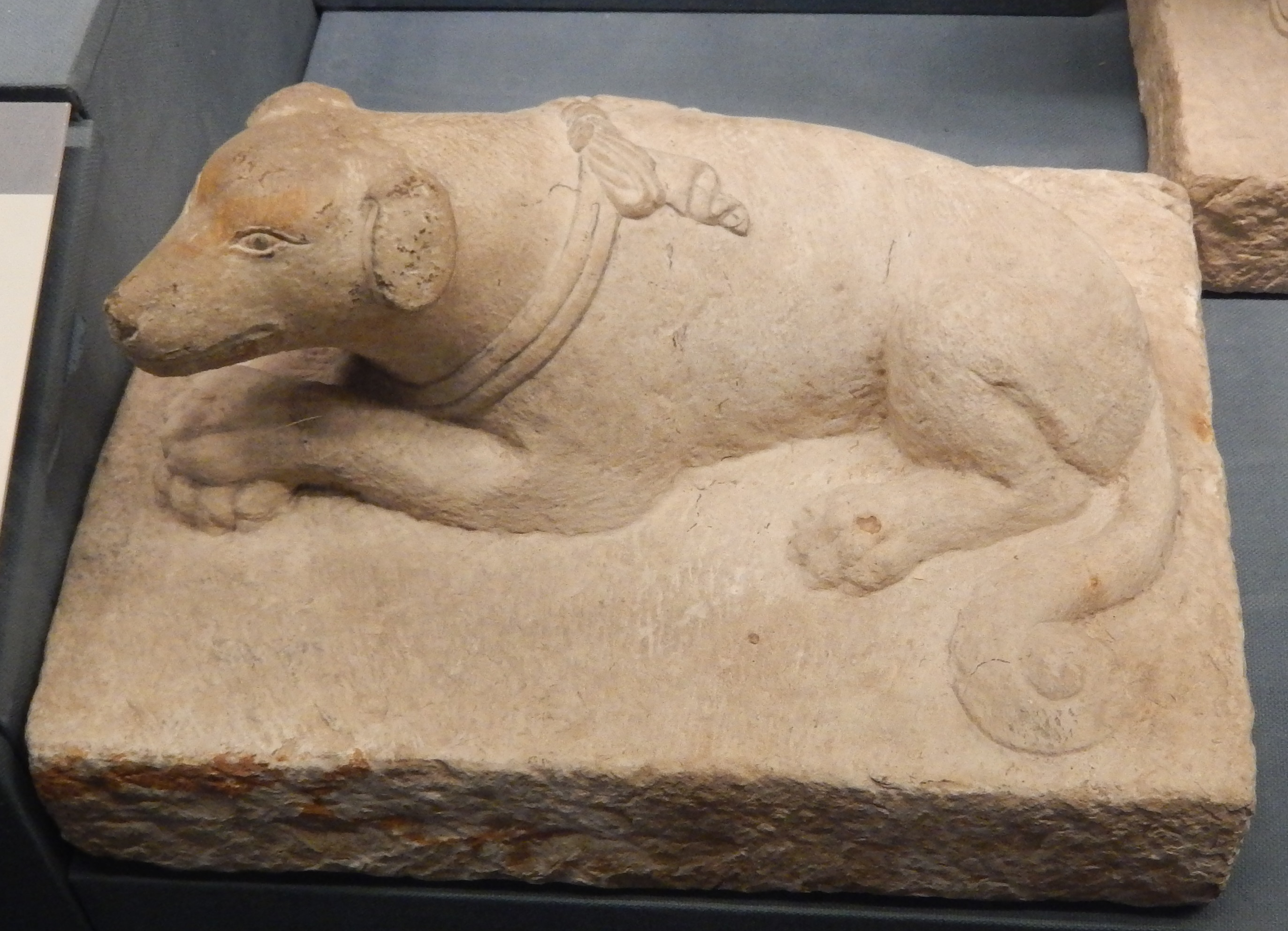 White stone dog statue. Han dynasty (206 BCE–220 CE). Held at the Capital Museum, Beijing.